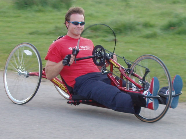 Handcycle in Richmond Park This smiling cyclist is on the hard surfaced track across the middle of Richmond Park, available for cyclists but not for cars.. He is using a Top End Force G cycle